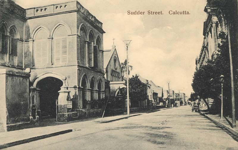 Sudder Street, Calcutta. The Sudder Court building is on the left. The northern side of the Calcutta Museum is on the right. The second building on the left is the Methodist Chapel.